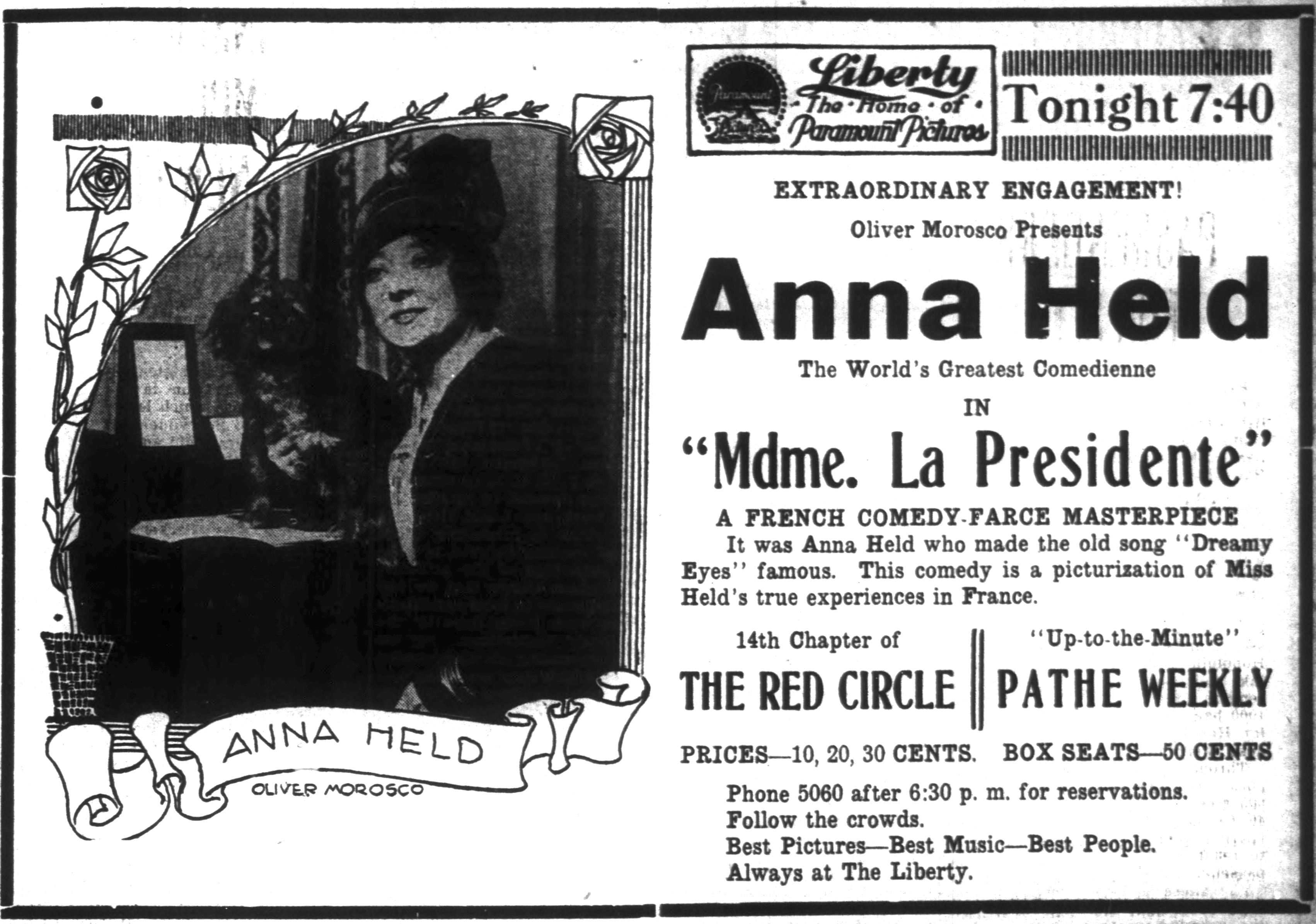 Madame la Presidente is a surviving 1916 silent film comedy produced by Oliver Morosco and directed by Frank Lloyd. Newspaper advert for the film.